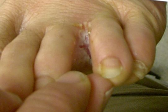 Intertrigo between toes